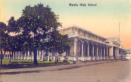 Archival Photo of old Manila High School